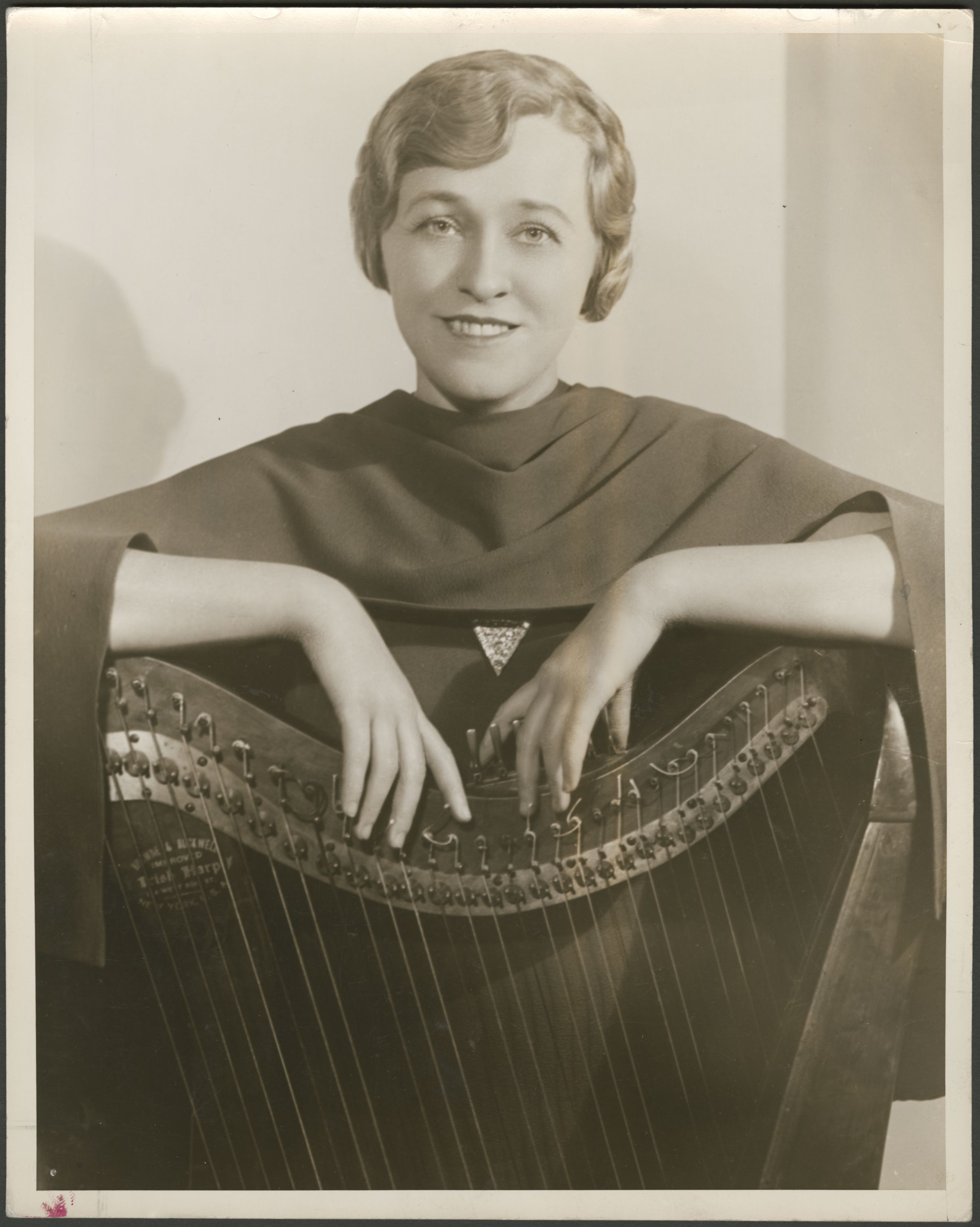 Photo from the 1920s of Dilling with the "Dilling" harp she had custom-made.